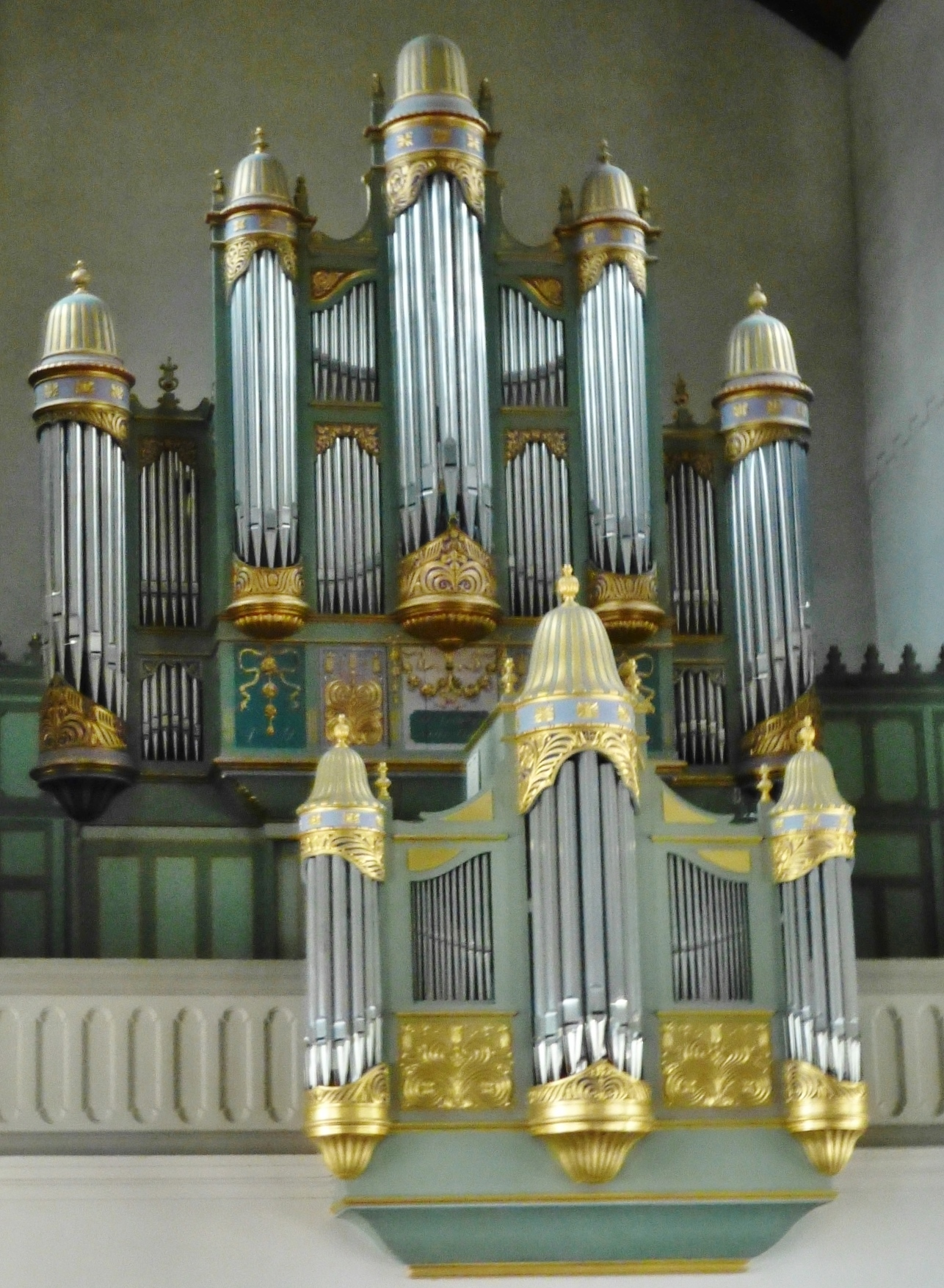 Vetlanda Church.Organ